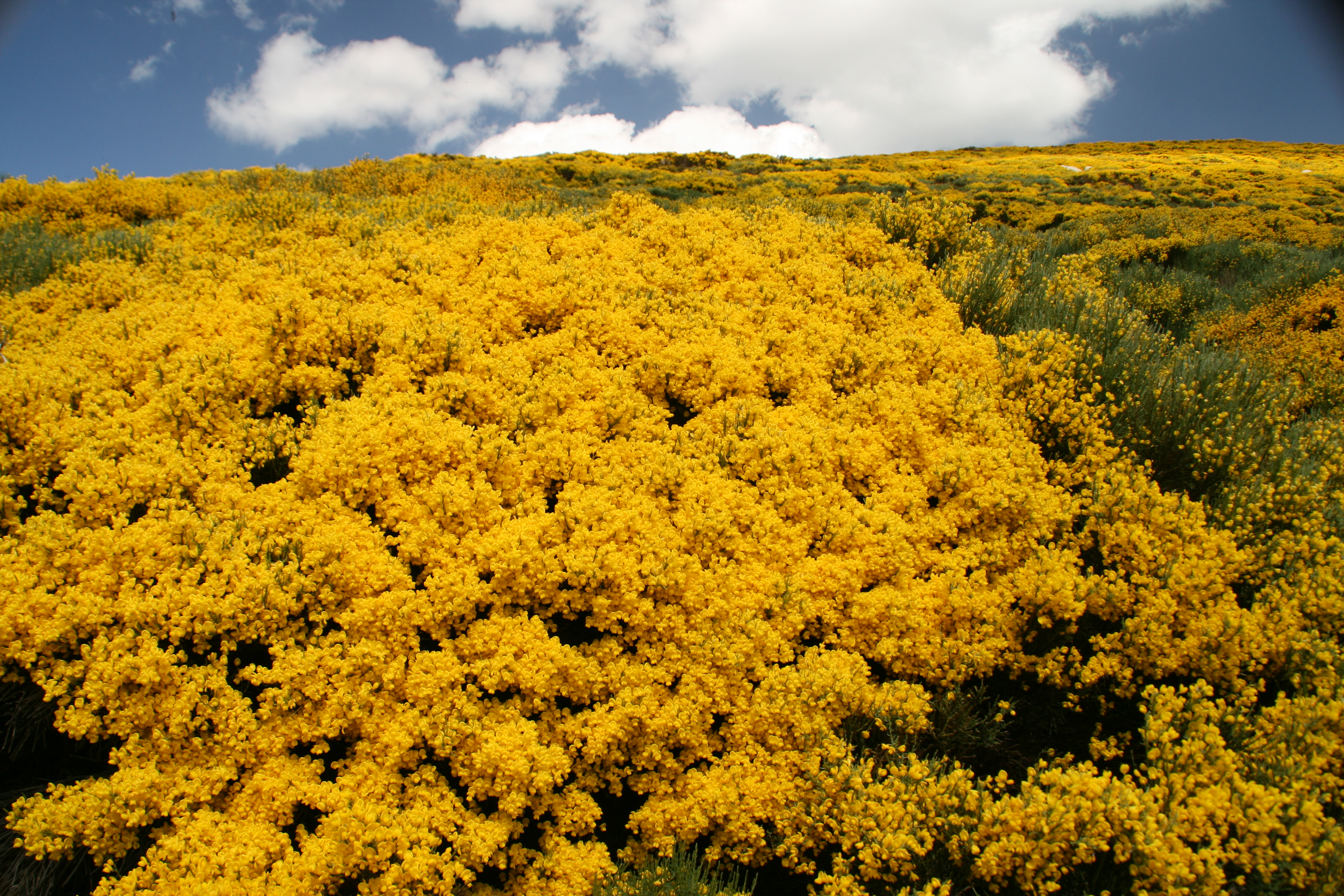 Circo de Gredos is a glaciar circus over plutonic rocks. It is in the Sierra of Gredos in the centre of the Spain. This is a photography of a Special Area of Conservation in Spain with the ID: ES4110002. Natura2000 entry, EEA entry